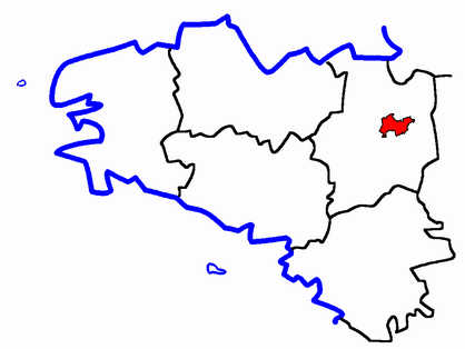 Map for localisazion of cantons of Pays-de-Loire, region in France